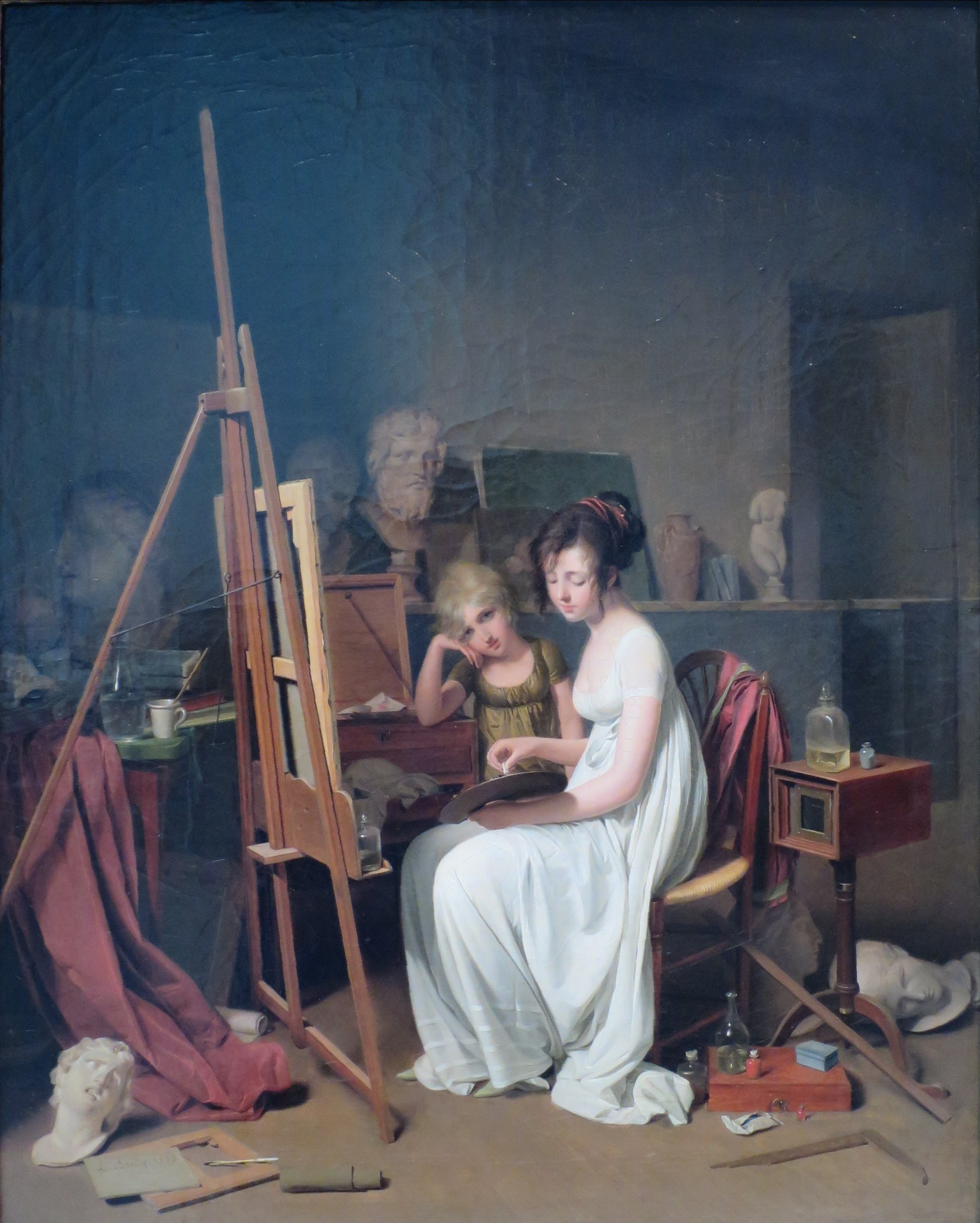 Artist's Studio by Louis-Léopold Boilly, 1800, Pushkin Museum